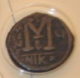 The backspacing of a Byzantine 40 nummi follis coin minted in Nicomedia, found on the island of Rhodes. The Grand Master's Palace collection. Approximately 6th century.